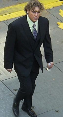 Wrestlemania 24 Citrus BowlWilliam Regal at WM XXIV